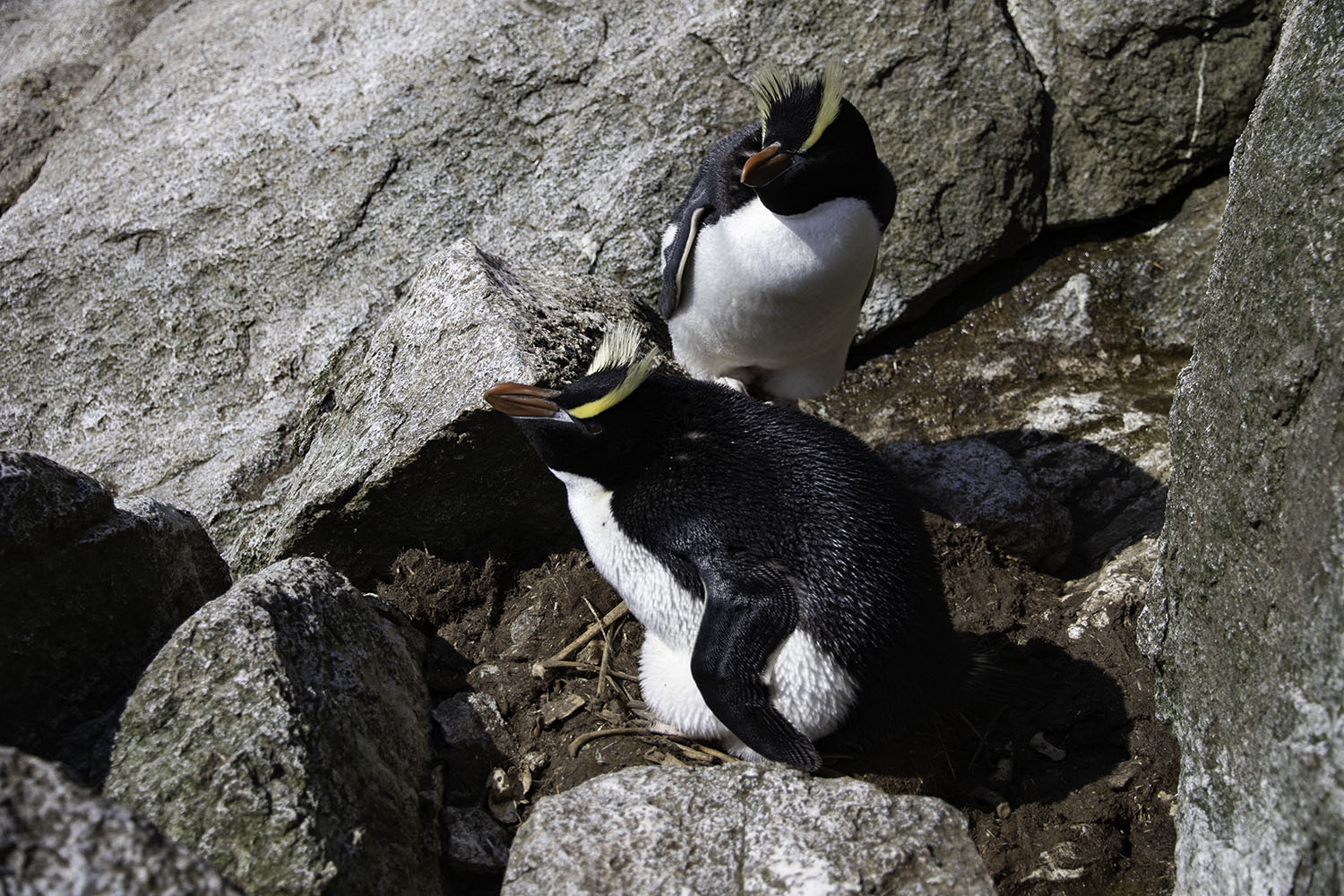 Breeding pair of Erect-crested penguins (Eudyptes sclateri) at their nest. Proclamation Island, Bounty Islands. 26 October 2019